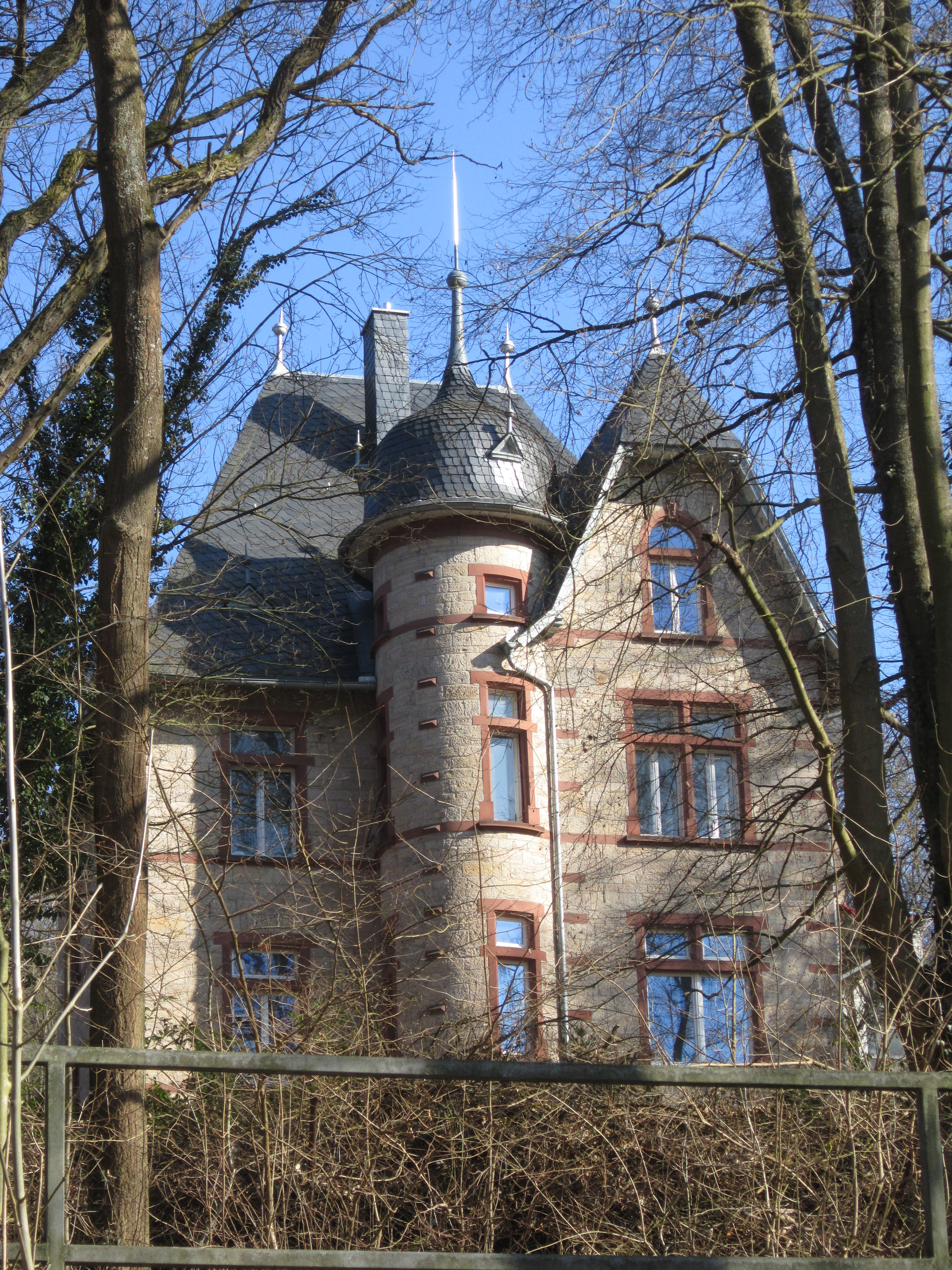 Dwellinghaus in Hausen, a quarter of the German spa town of Bad Kissingen (Lower Franconia, Bavaria); Salinenstraße 60